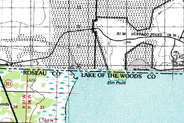 USGS map image of Elm Point, Minnesota.